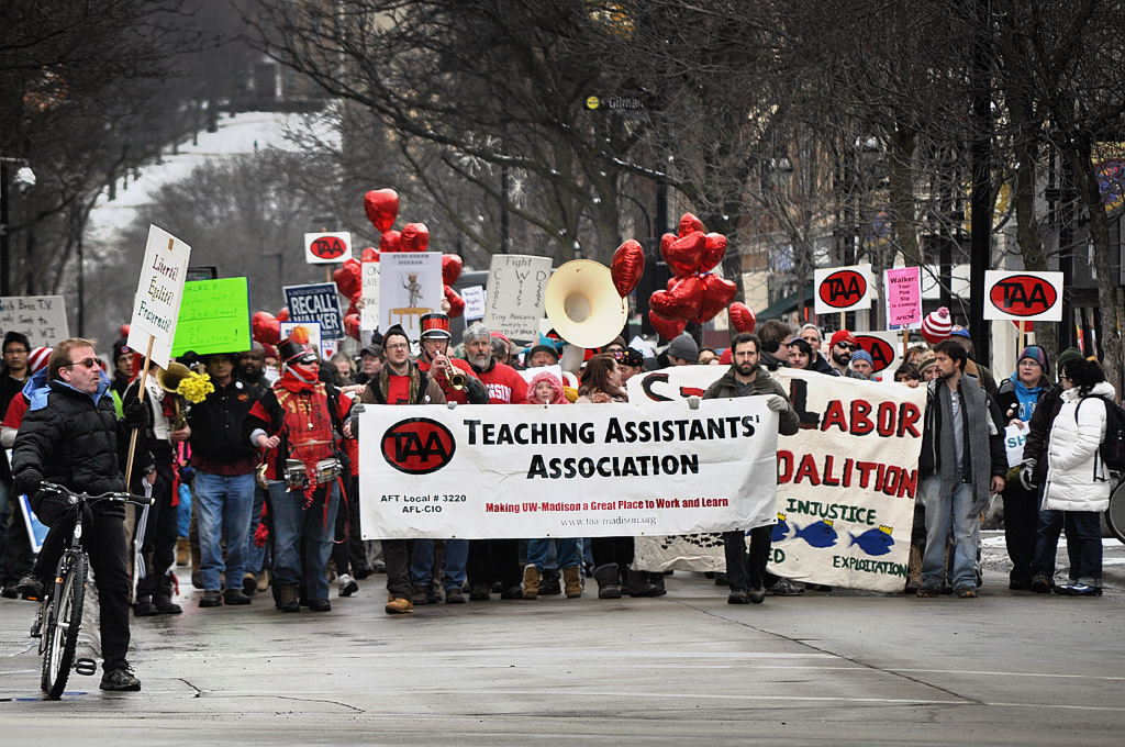 The March that started it all a year ago, repeated on Valentine's Day, 2012. "Another Year Longer, Another Year Stronger." Great way to brighten up a dark, gray Valentine's Day.